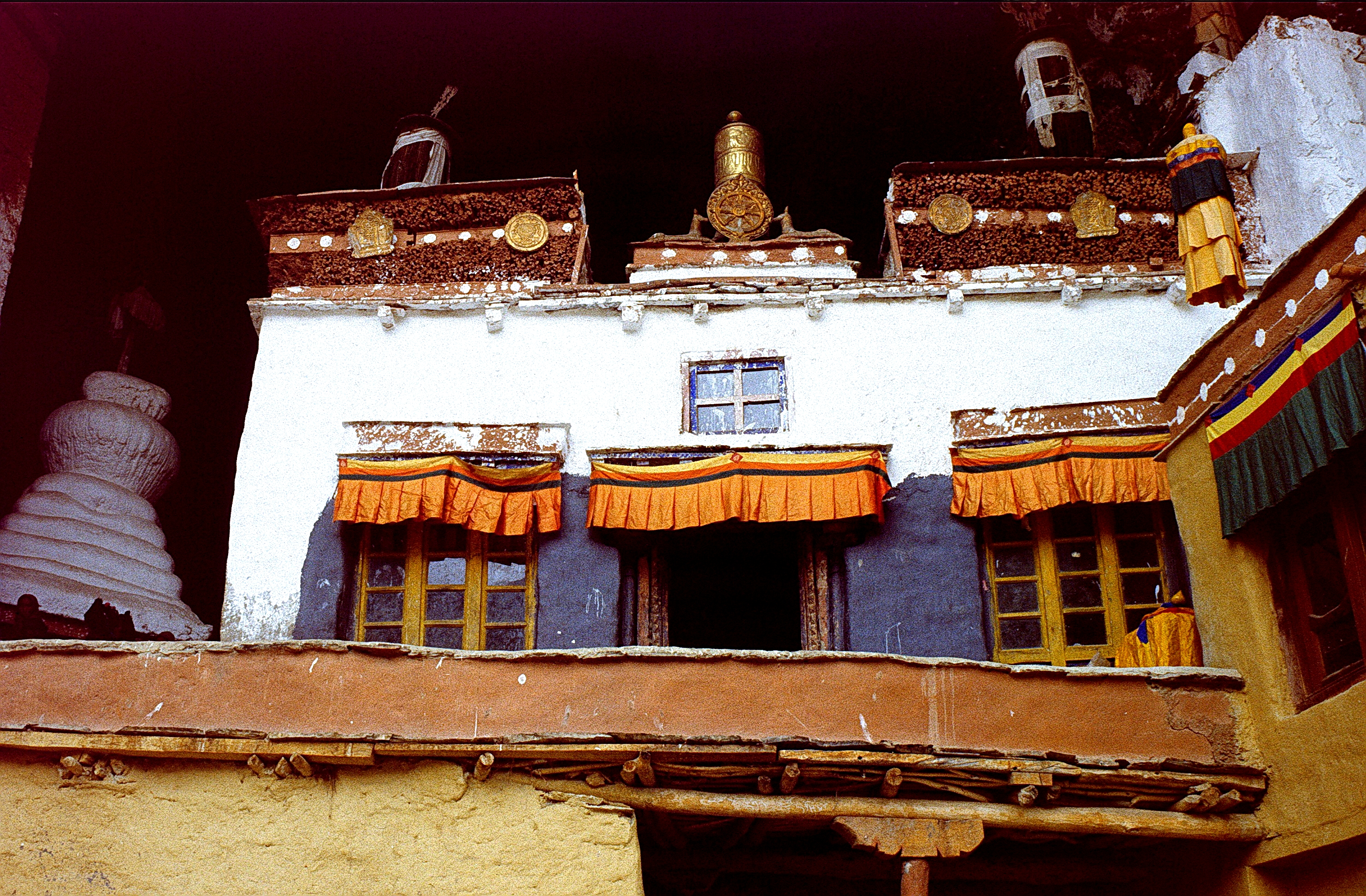 Part of view about Phuktal monastery (gompa), Zanskar.